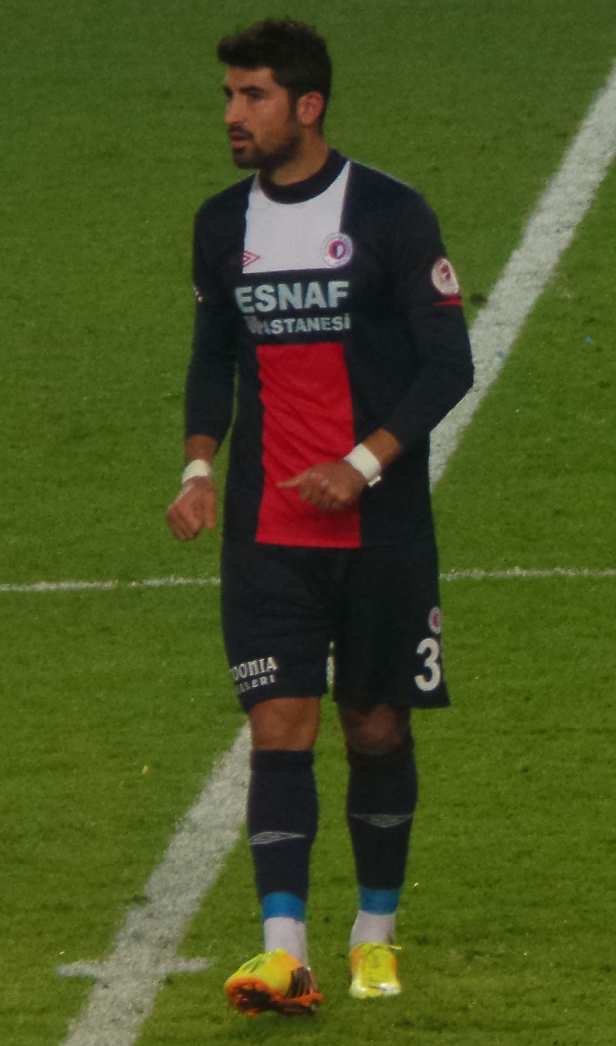 Ahmet ARas at Fethiyespor match